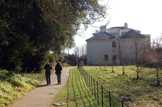 Approaching Down House